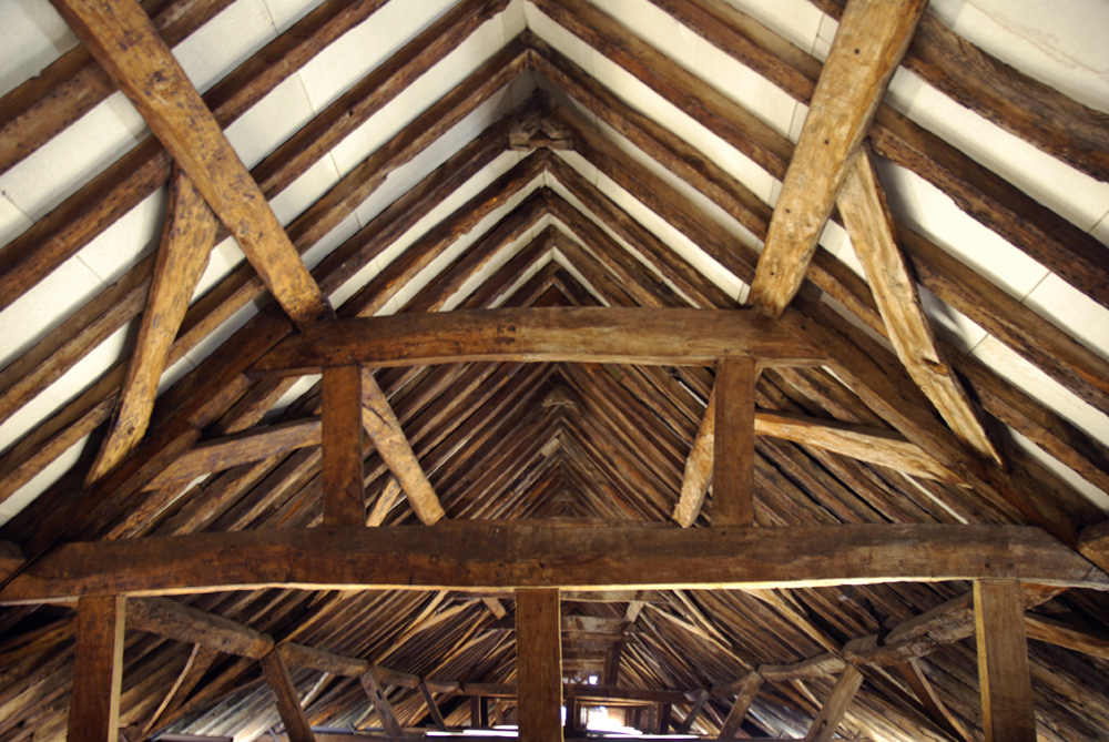 Timber roof structure of Whitefriars Carmelite friary in Coventry, UK.